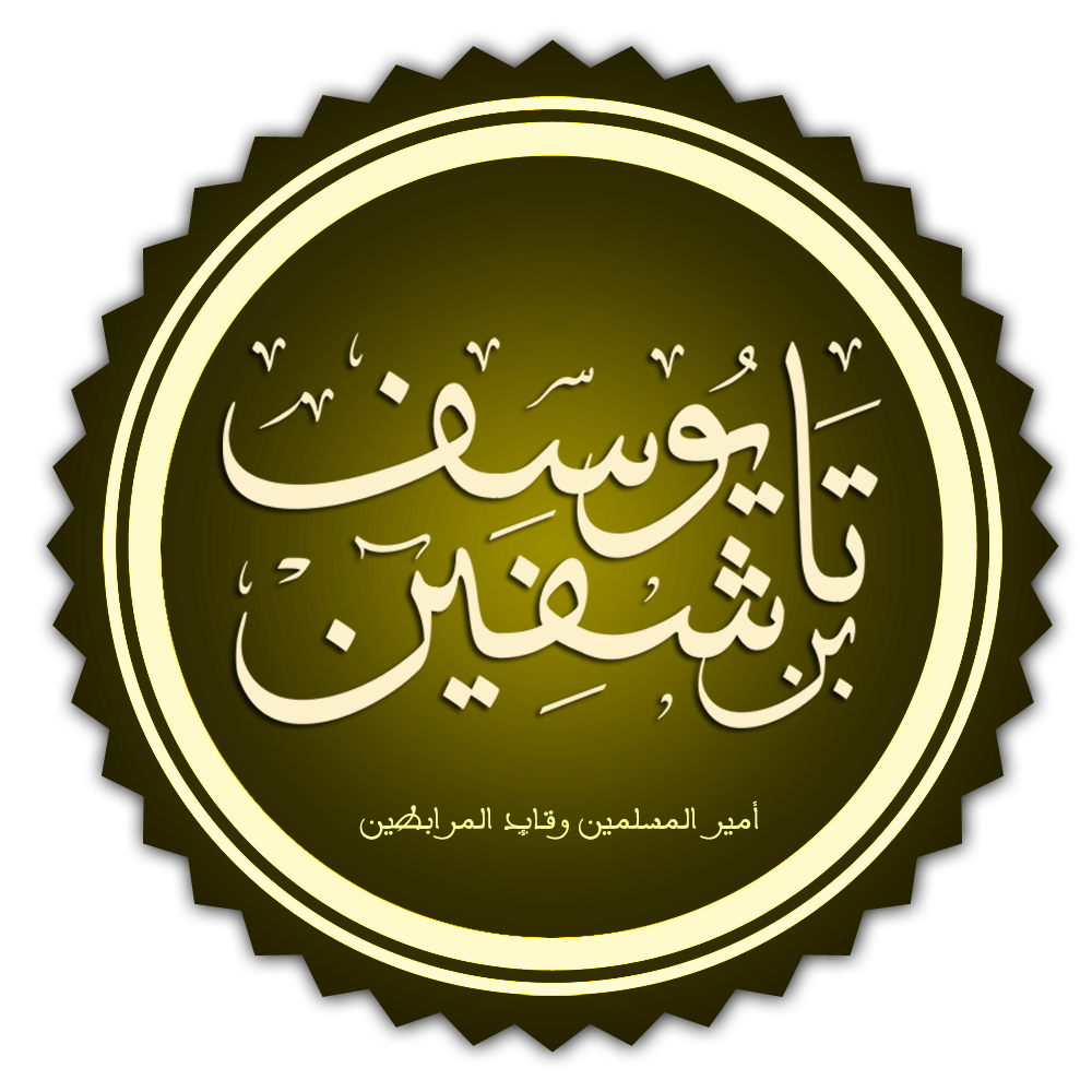 Manuscript of Yusuf ibn Tashfin in arabic calligraphy